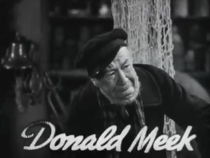 Donald Meek in Barnacle Bill, by Richard Thorpe (1941)